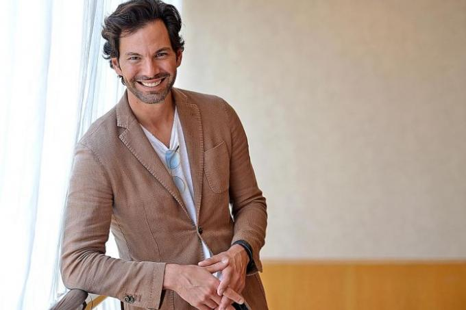 Bobby Tonelli hosts History Asia's reality show, Celebrity Car Wars.